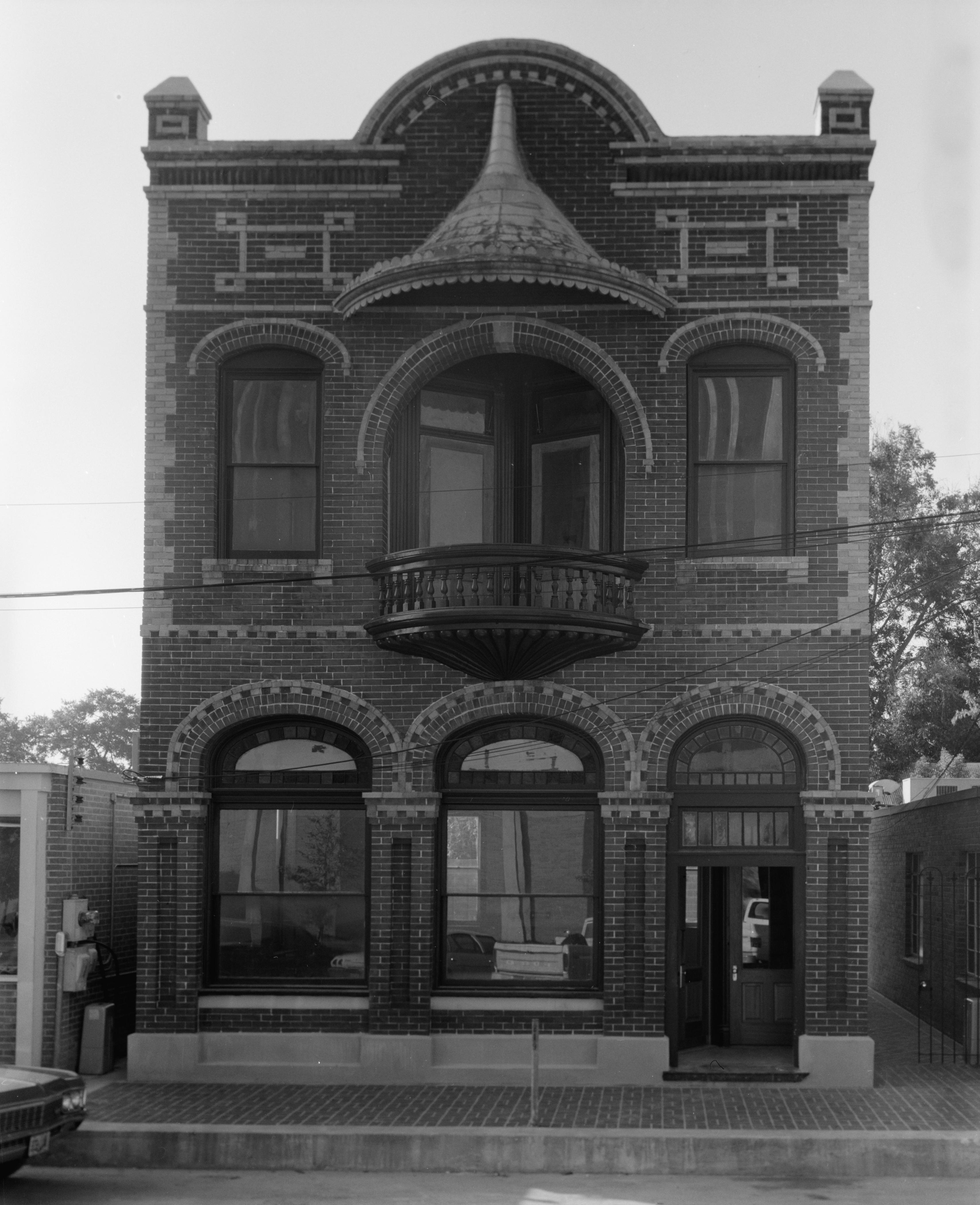 Front of the Old Lafayette City Hall, located at 217 W. Main Street in Lafayette, Louisiana, United States. A bank at the time this photograph was taken, it was built in 1898, and it is listed on the National Register of Historic Places.